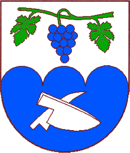 Municipal coat of arms of Násedlovice village, Hodonín District, Czech Republic.